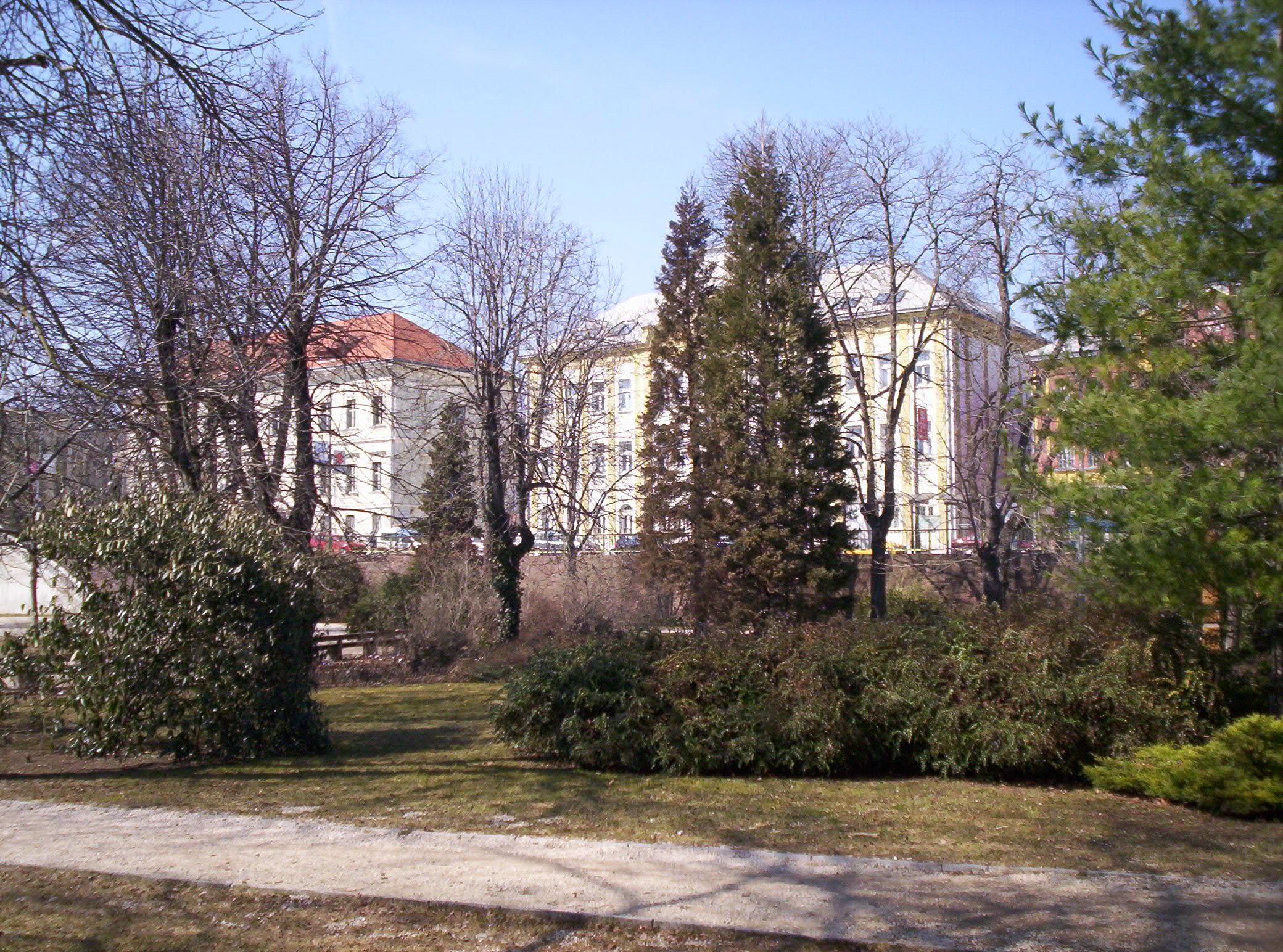 Description: Theatre Garden, Veszprém